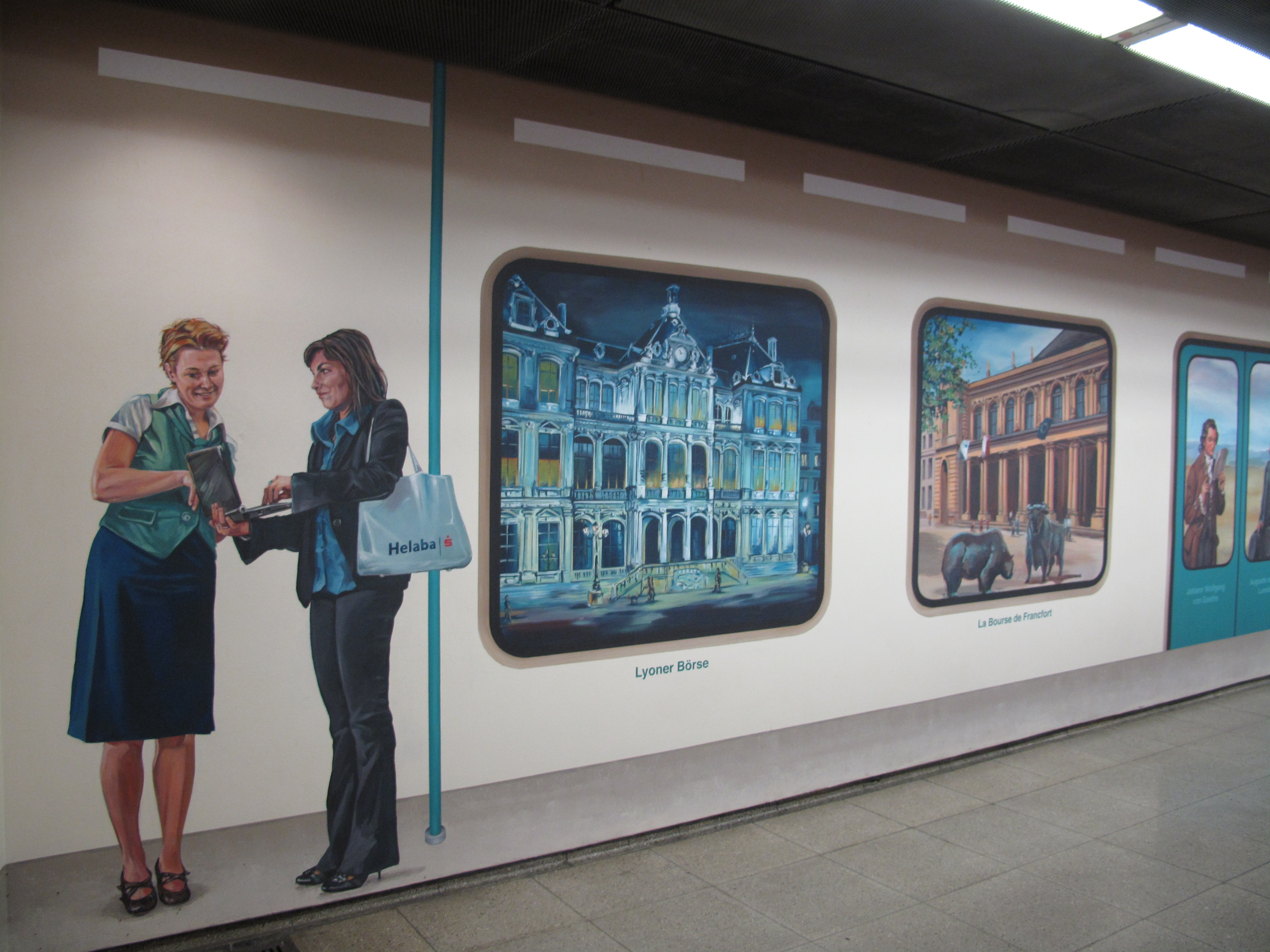 Part of the Mural in the metro station Frankfurt (Main) Konstablerwache, Germany, created by the french artist group CitéCréation and her subsidiary CreativeStadt in Potsdam. The Trompe-l'œils, titled „Reise in Raum und Zeit“ (german for: journey through space and time), show different motifs from Lyon and Frankfurt am Main, which are connected by a fictitious transportation. The artwork was unveiled on 11 June 2010 at the occasion of the 50 year anniversary of the town twinning between Frankfurt and Lyon.